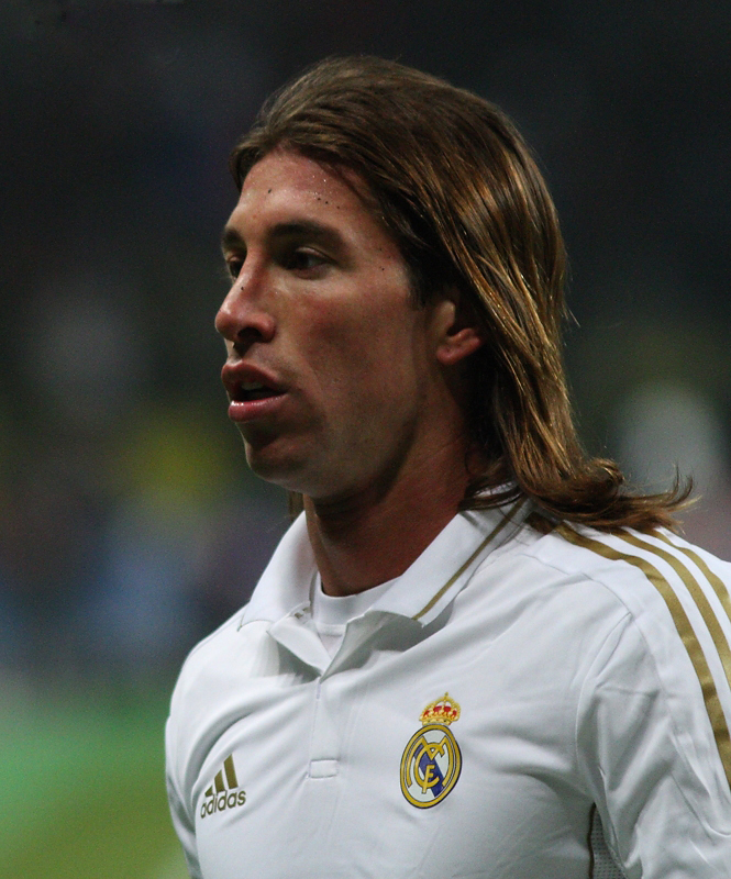 Sergio Ramos